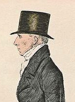 Lord Cockburn (1779-1854), Scottish advocate and judge. Cropped from a full-length drawing.